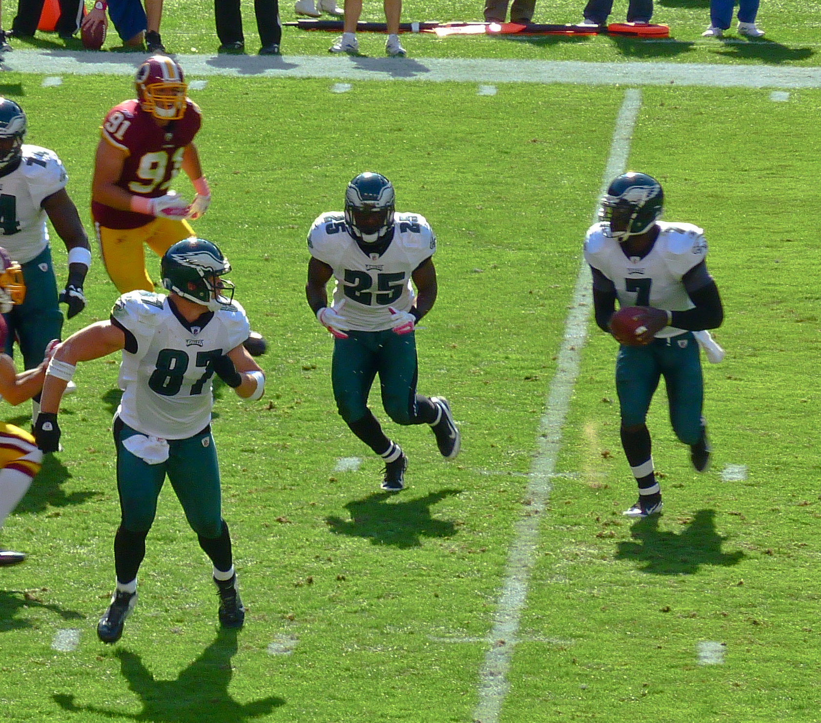 Michael Vick prepares to toss the ball to Lesean McCoy